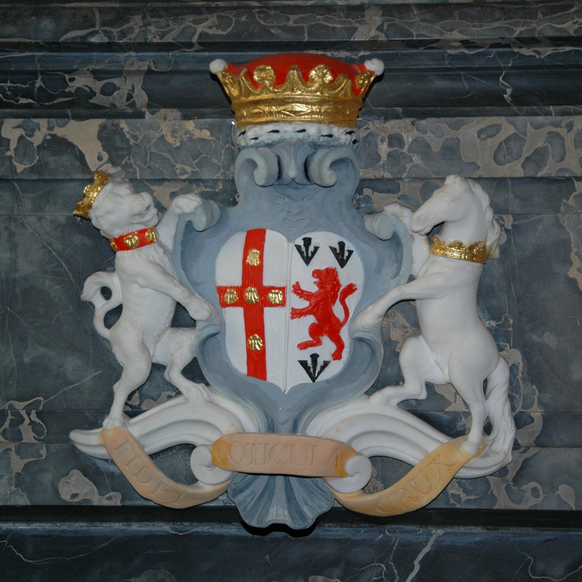 Church of England parish church of All Saints, Middleton Stoney, Oxfordshire; Jersey Chapel: coat of arms on a monument to one of the Earls of Jersey